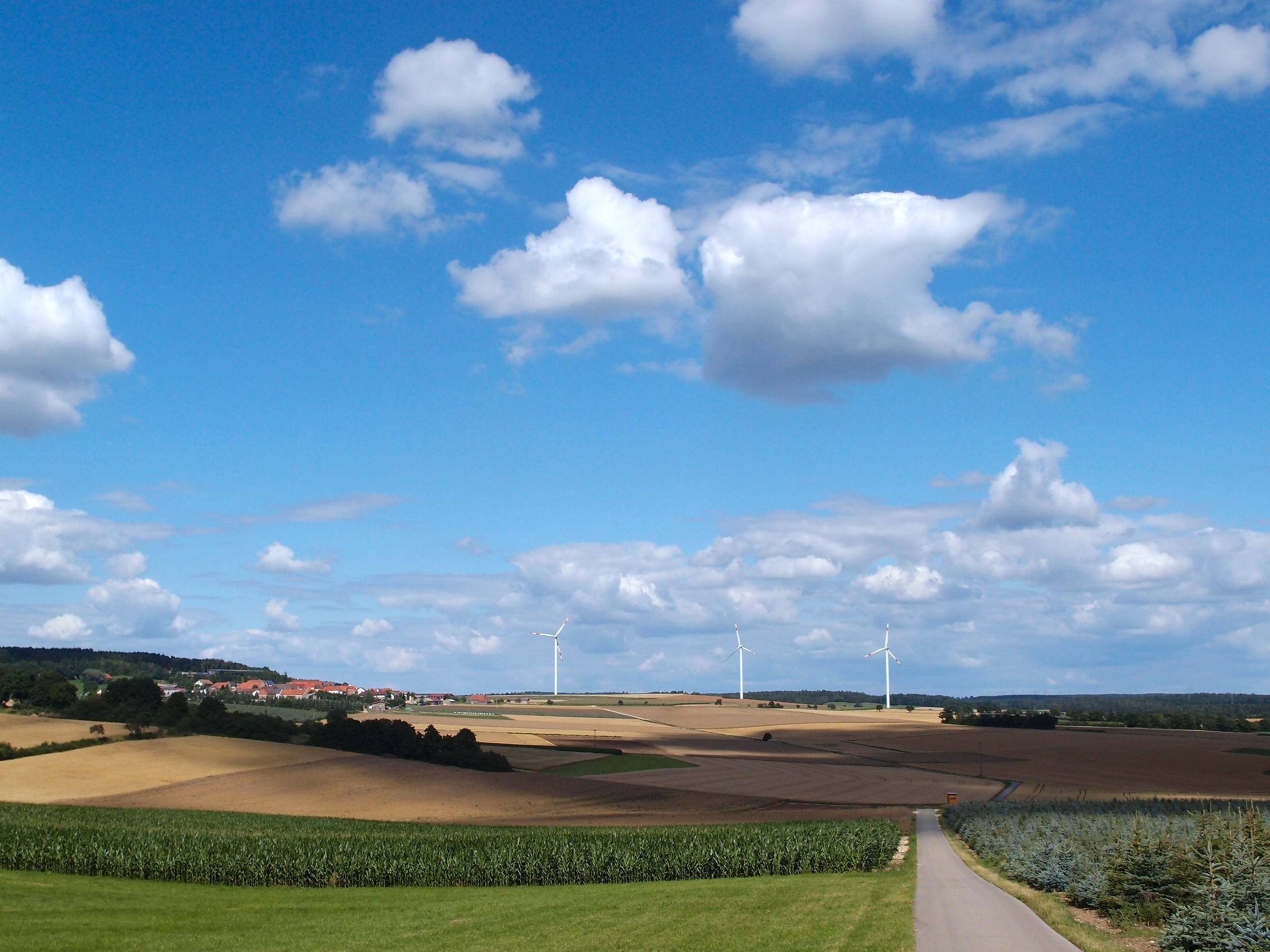 Härtsfeld, Germany – view to the east from Dorfmerkingen